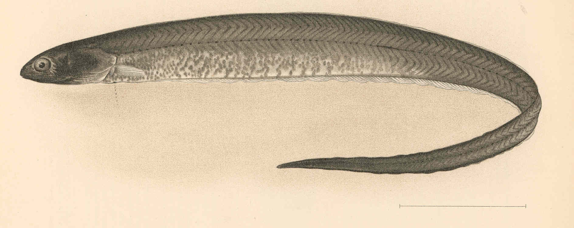 Fierasfer umbratilis (Jordan & Evermann) Jordanicus umbratilis (Jordan & Evermann). Type Subject: Fierasferidae Tag: Fish